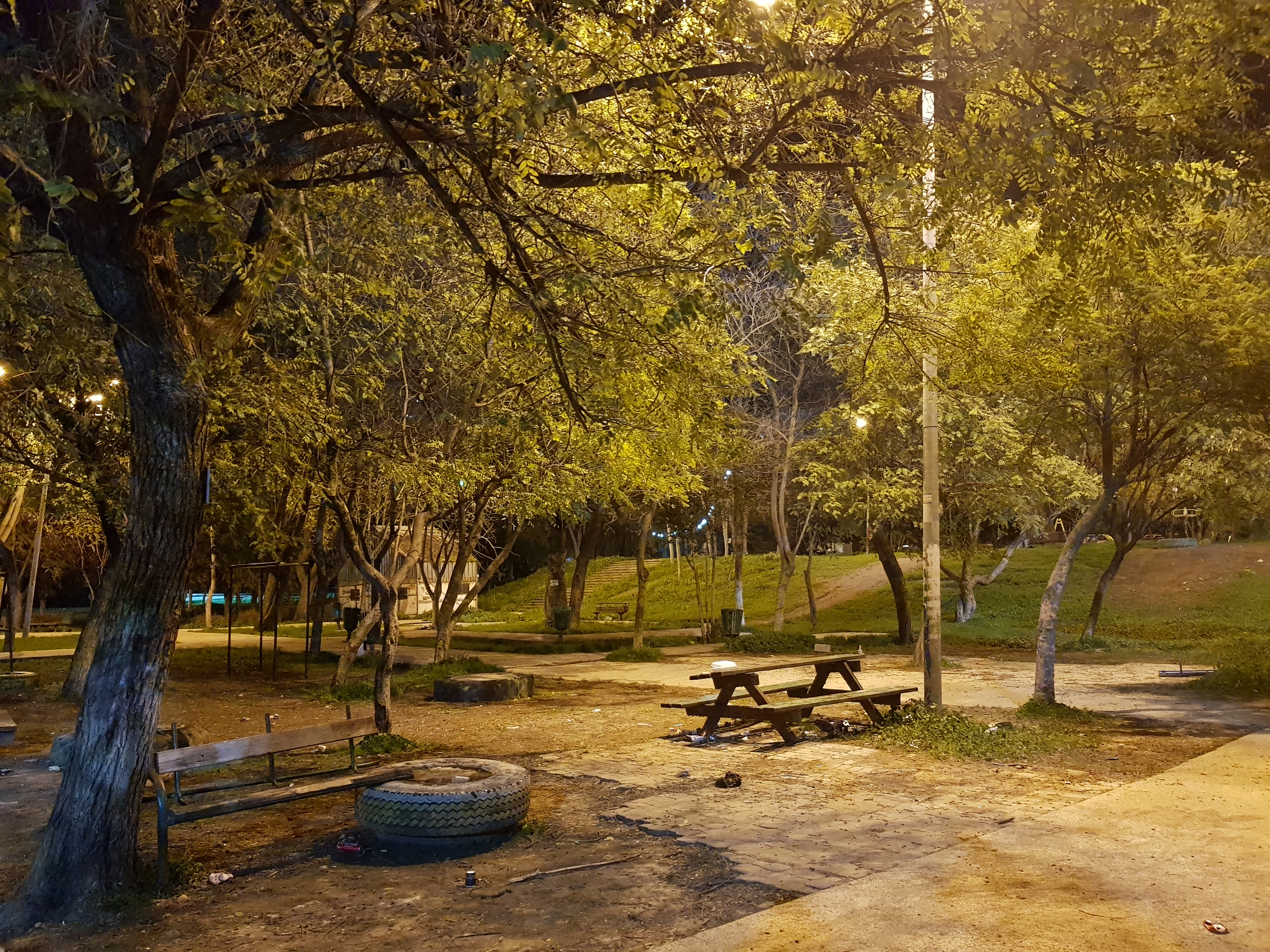 Jamal Abdel Nasser Park at night in Nablus.